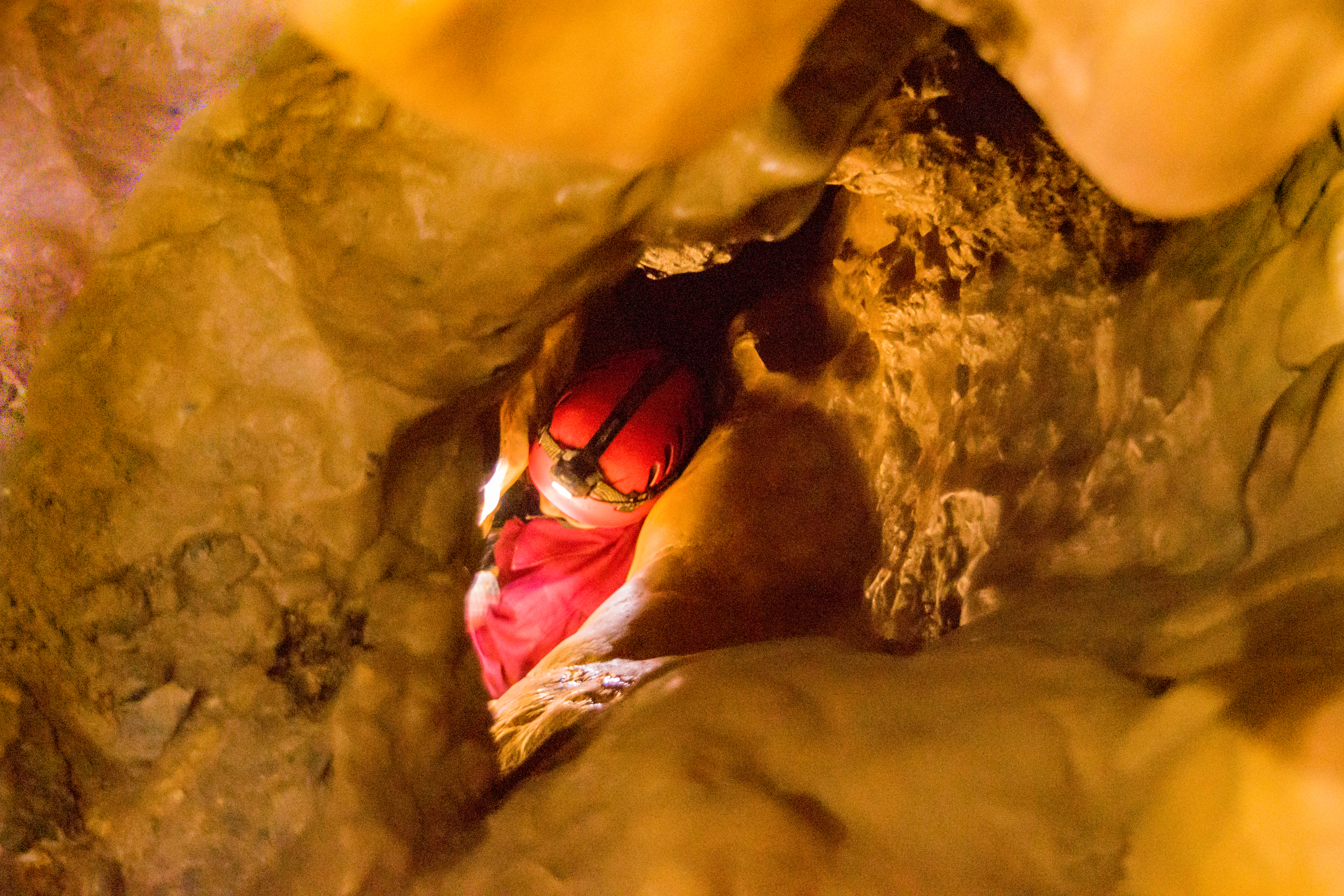 Narrow passage to "The Second Stream" in Kawachi no Kaza-ana("Kawachi Wind Cave").